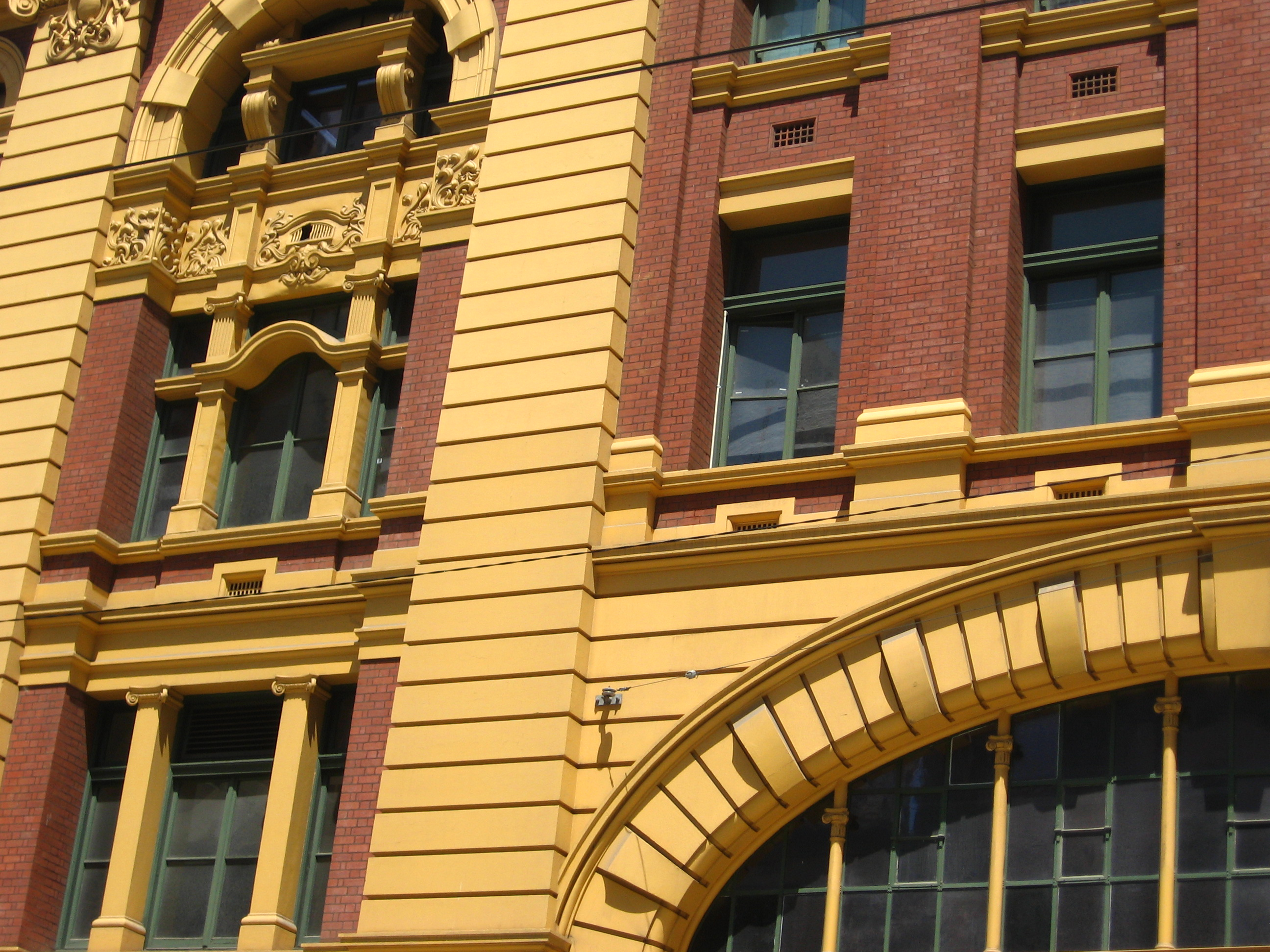 Melbourne, Australia - Close view of facade of Fliders Street Station